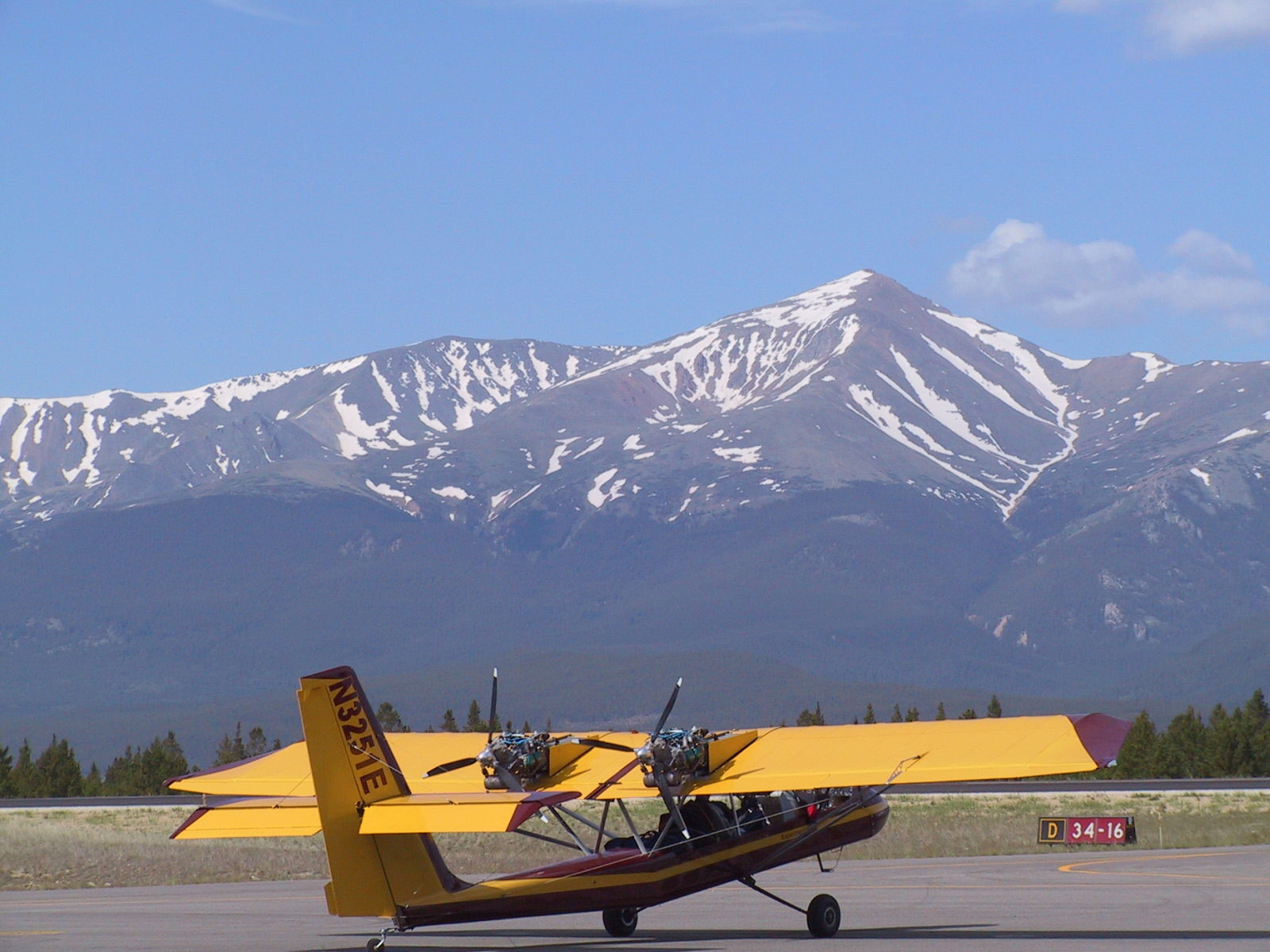 Aircam at Leadville, Colorado, highest airport in the U.S.